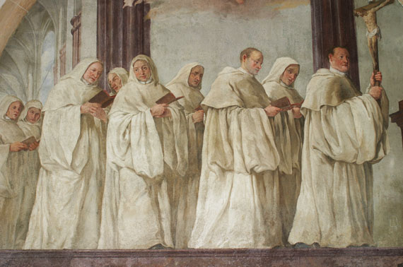 Jan Petr Molitor / Johann Petr Molitor, Cistercian monks, murals in the Capitular Hall, Cistercian Abbey Osek, North Bohemia, before 1756